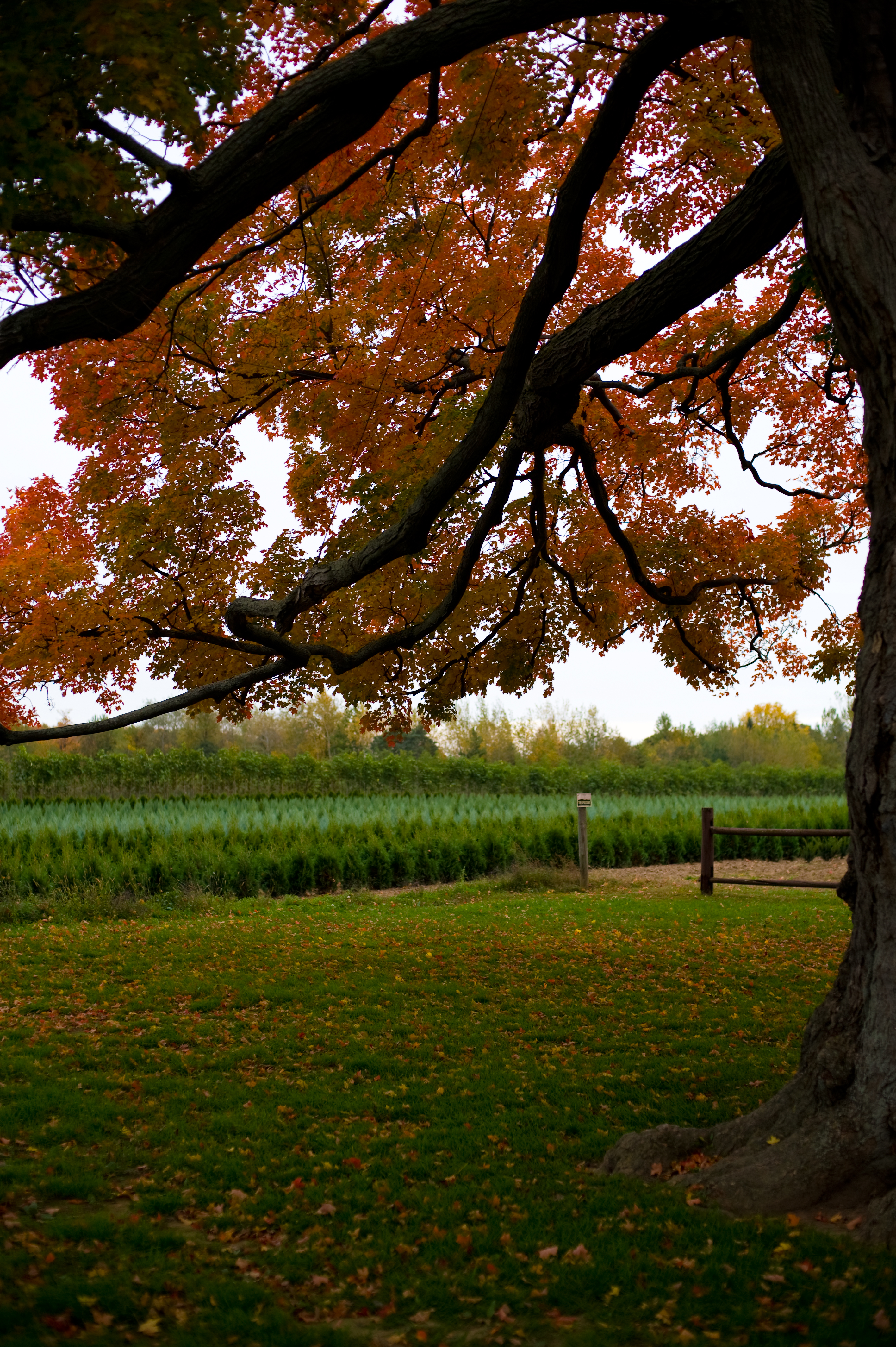 Taken on October 15 2008 by Miklos Bacso